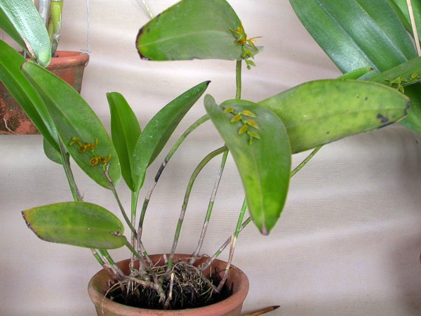 Photos by Americo Docha Neto & Dalton Holland Baptista for Orchidstudium